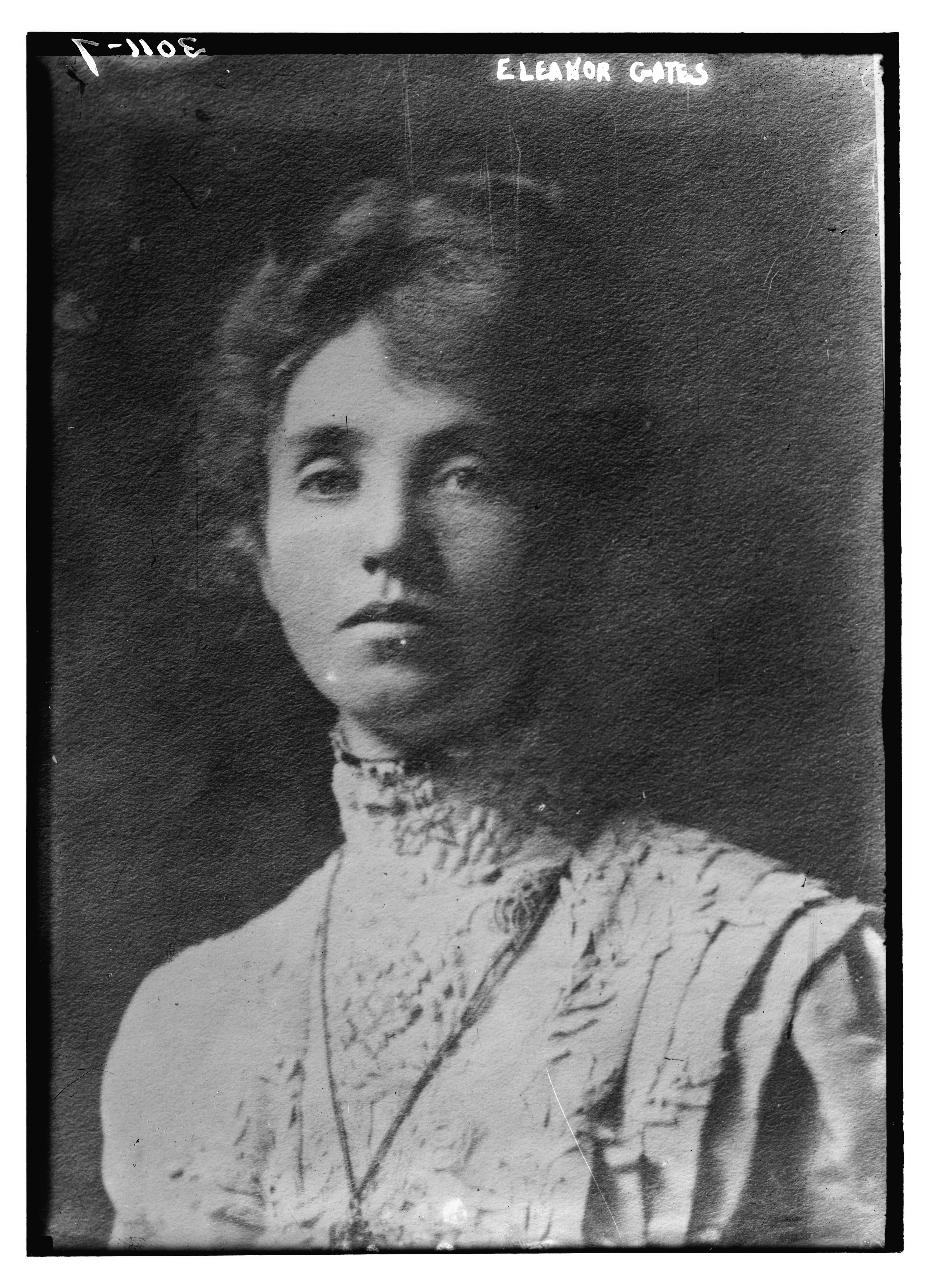 Eleanor Gates Bain News Service, publisher. Eleanor Gates [between ca. 1910 and ca. 1915] 1 negative : glass ; 5 x 7 in. or smaller. Notes: Title from unverified data provided by the Bain News Service on the negatives or caption cards. Forms part of: George Grantham Bain Collection (Library of Congress). Format: Glass negatives. Repository: Library of Congress, Prints and Photographs Division, Washington, D.C. 20540 USA, General information about the Bain Collection is available at Persistent URL: Call Number: LC-B2- 3011-7